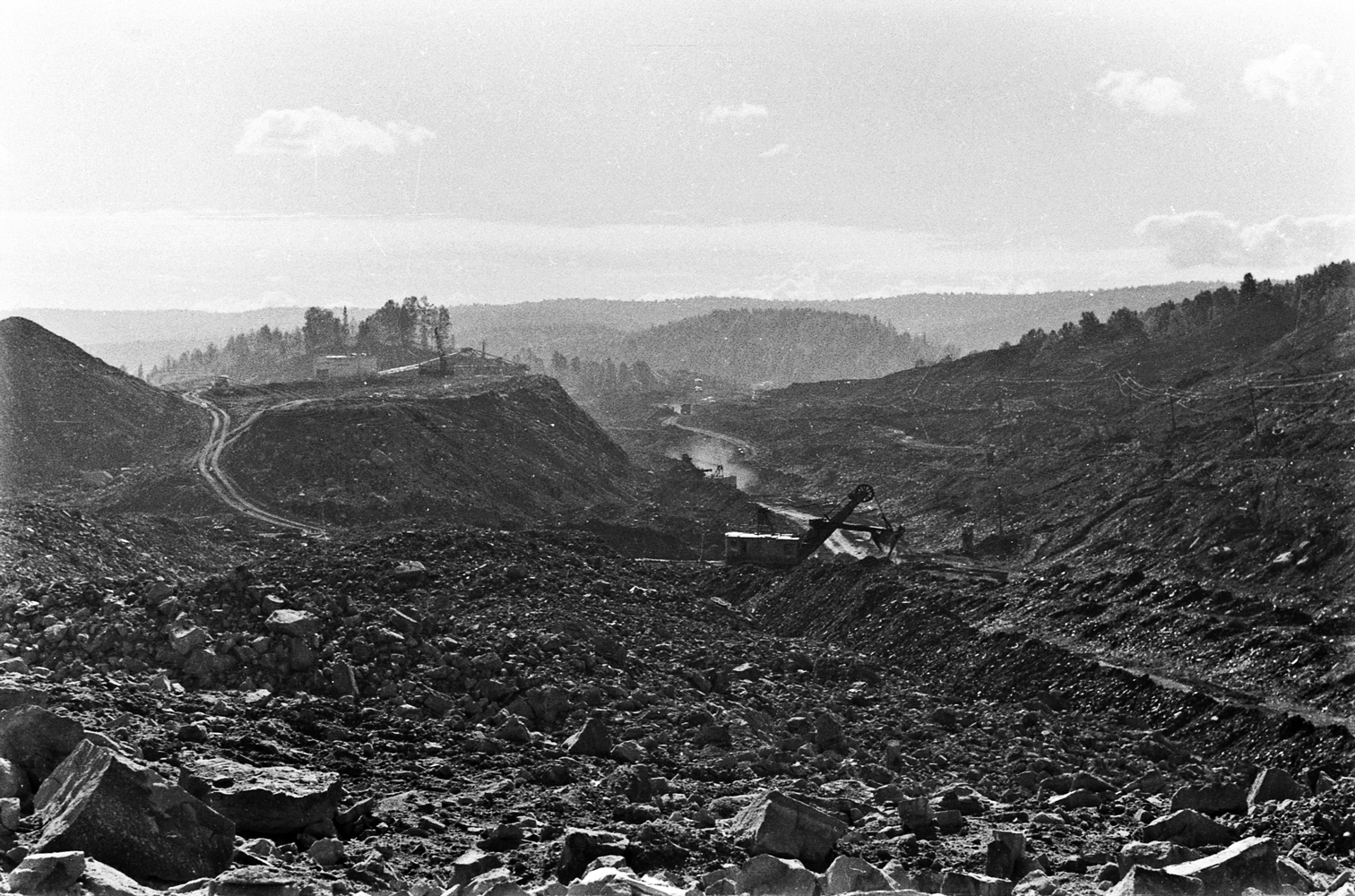 Osinnikovskaya coal mine. Kuznetsk coal basin. Kemerovo Oblast. USSR. Photo 1987.